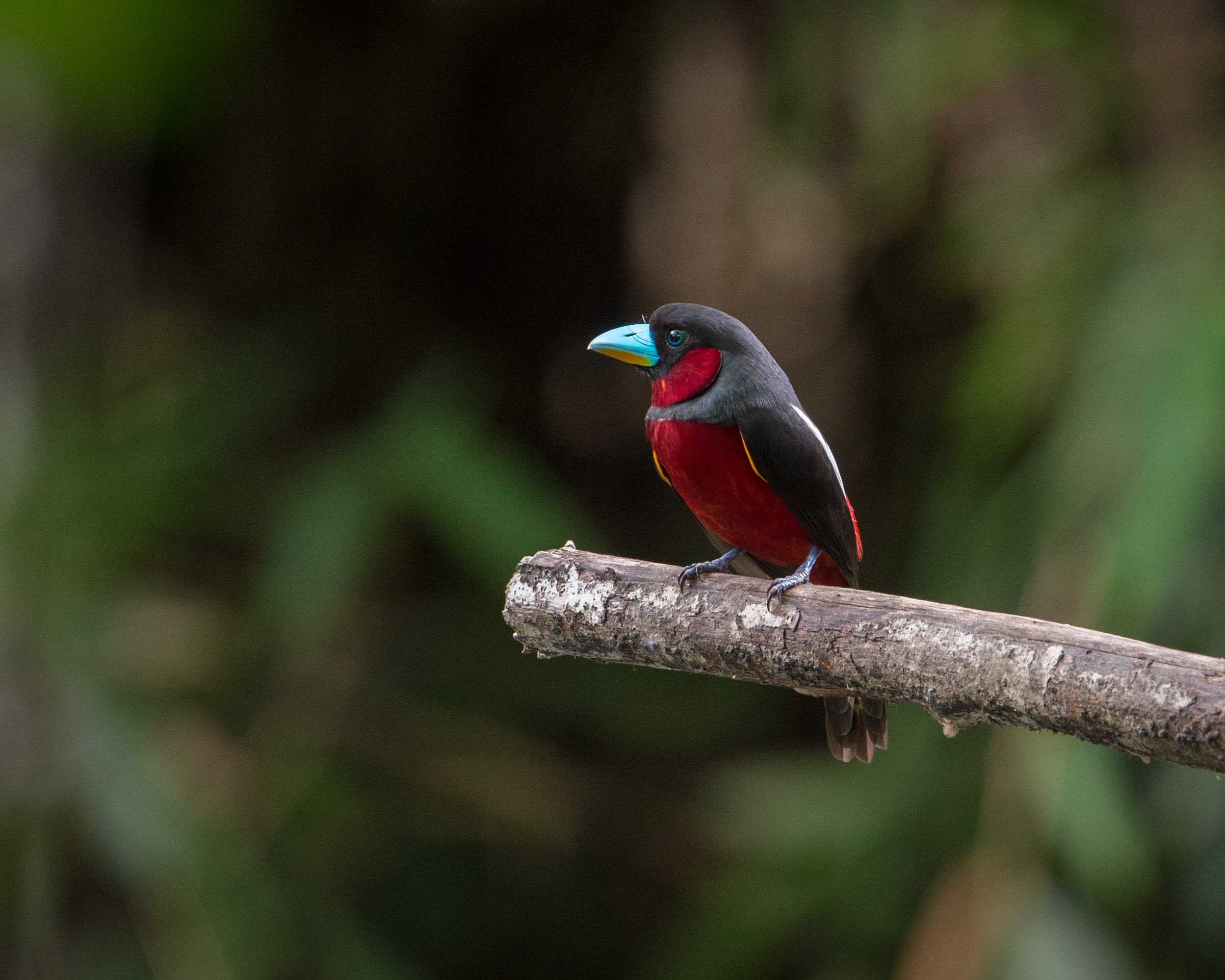 Cymbirhynchus macrorhynchos. 05 May 2013 Kaeng Krachan National Park, Phetchaburi, Thailand